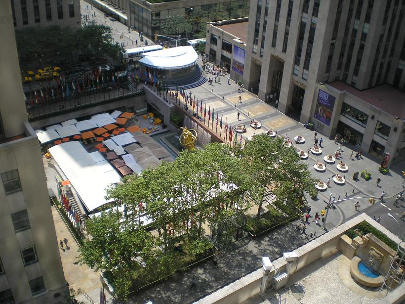 This is a view of Rockefeller Plaza from 45 Rockefeller Plaza. Taken August 2nd, 2006. It was 95 degrees, which is why the Plaza is near-empty.